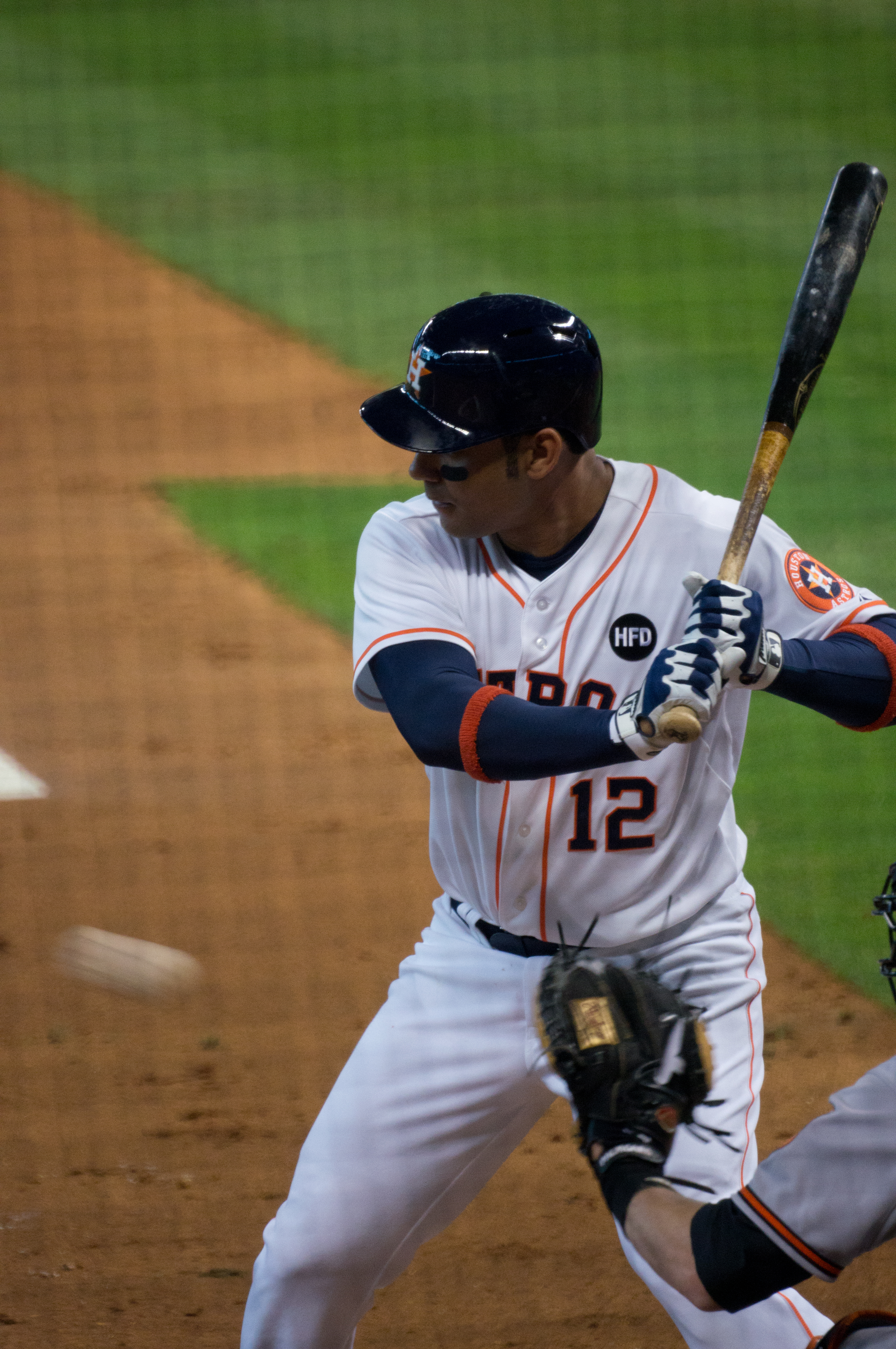 Carlos Pena with the Houston Astros in 2013.